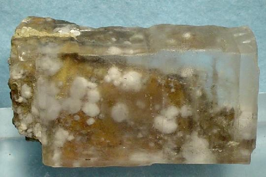 Halite, Anhydrite Locality: Poland (Locality at ) Size: 5.5 x 3.2 x 2.4 cm. An UNUSUAL, CLASSIC and showy specimen from one of the famous salt mines of Poland. White to gray anhydrite balls on matrix are clearly visible through the blocky, TV screen-like, water-clear, elongated halite cube! The anhydrite balls are richly and aesthetically scattered on the matrix, which very interestingly covers only a portion of the back of the halite cube. The matrix-less portion of the rock salt reveals how really clear the crystal is! The halite cube is essentially pristine. Ex. Dave and Emily Stoudt Collection.